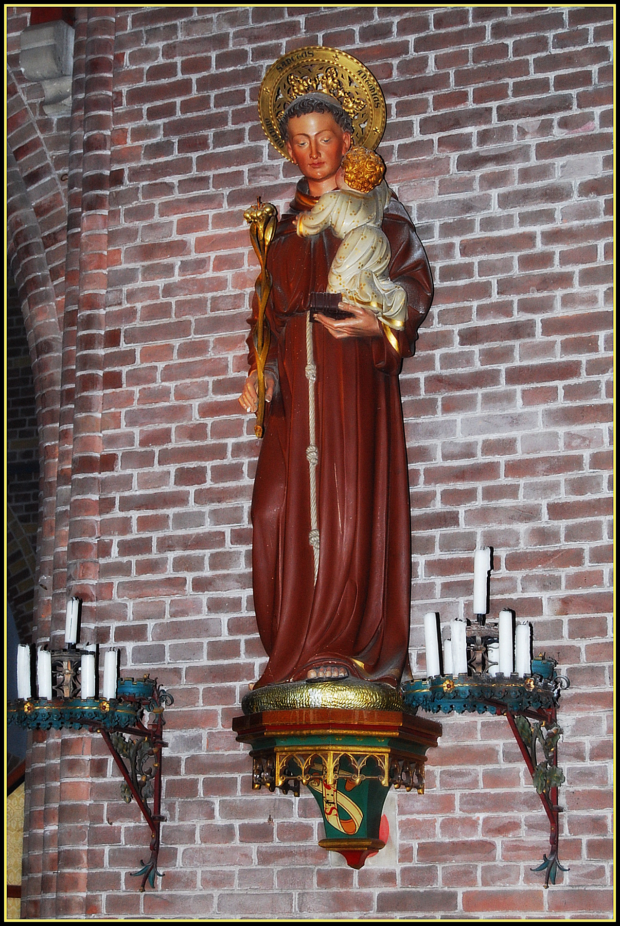 Saint Bonifacius Church Leeuwarden, Saint Anthony of Padua